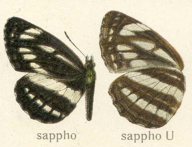 Neptis sappho